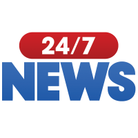 Logo for 24/7 News, an iHeartRadio digital channel